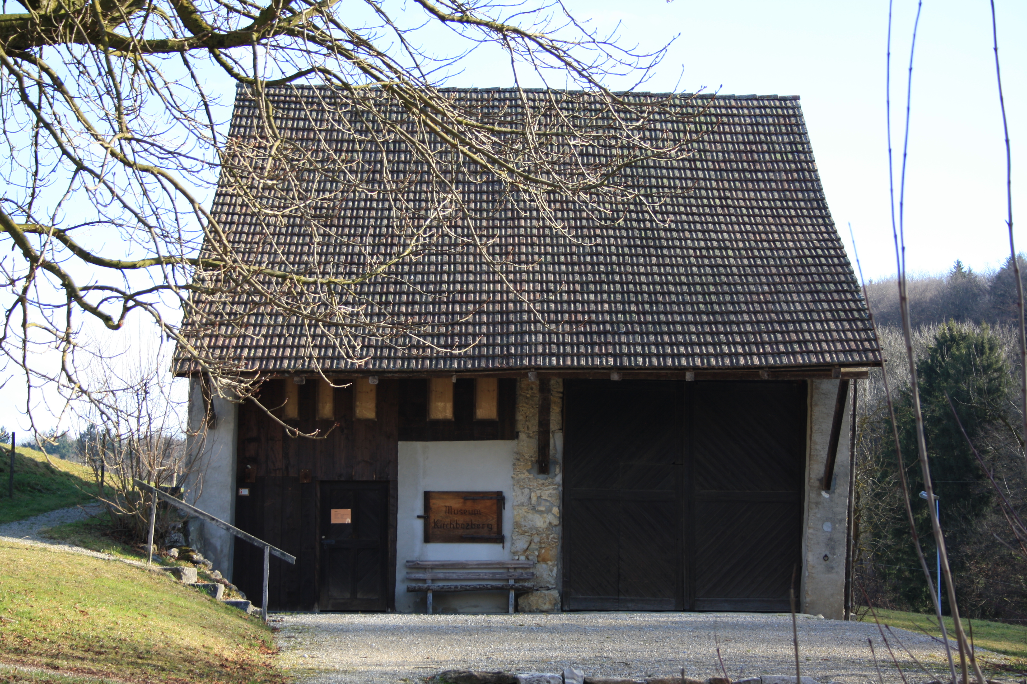 Museum of Kirchbözberg, municipality of Unterbözberg